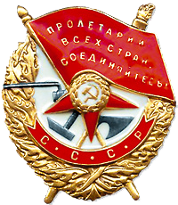 Soviet battle order Of Red Banner